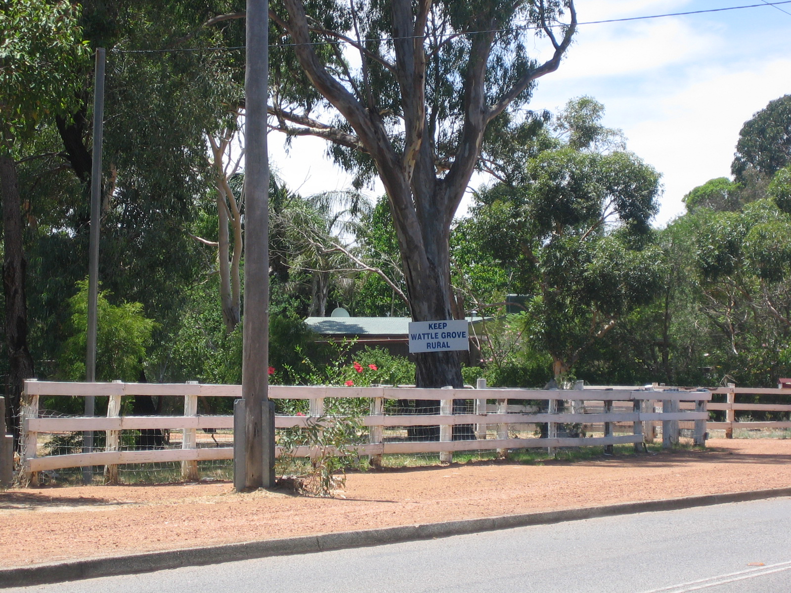 Images of Wattle Grove, Western Australia, "Keep Wattle Grove Rural" 02